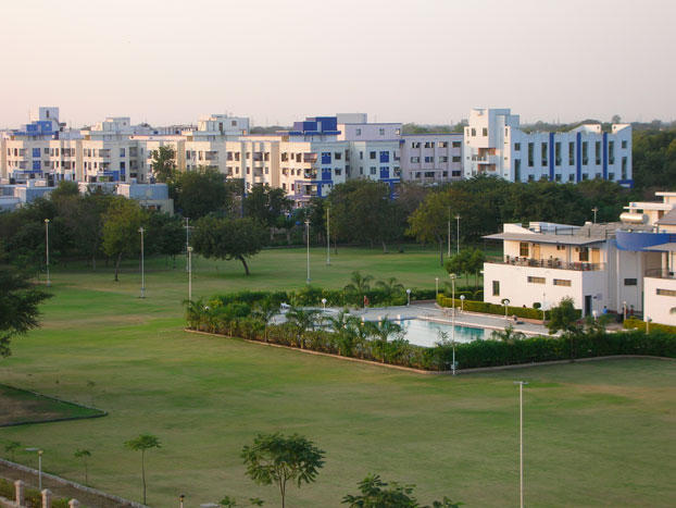 Creative Infocity